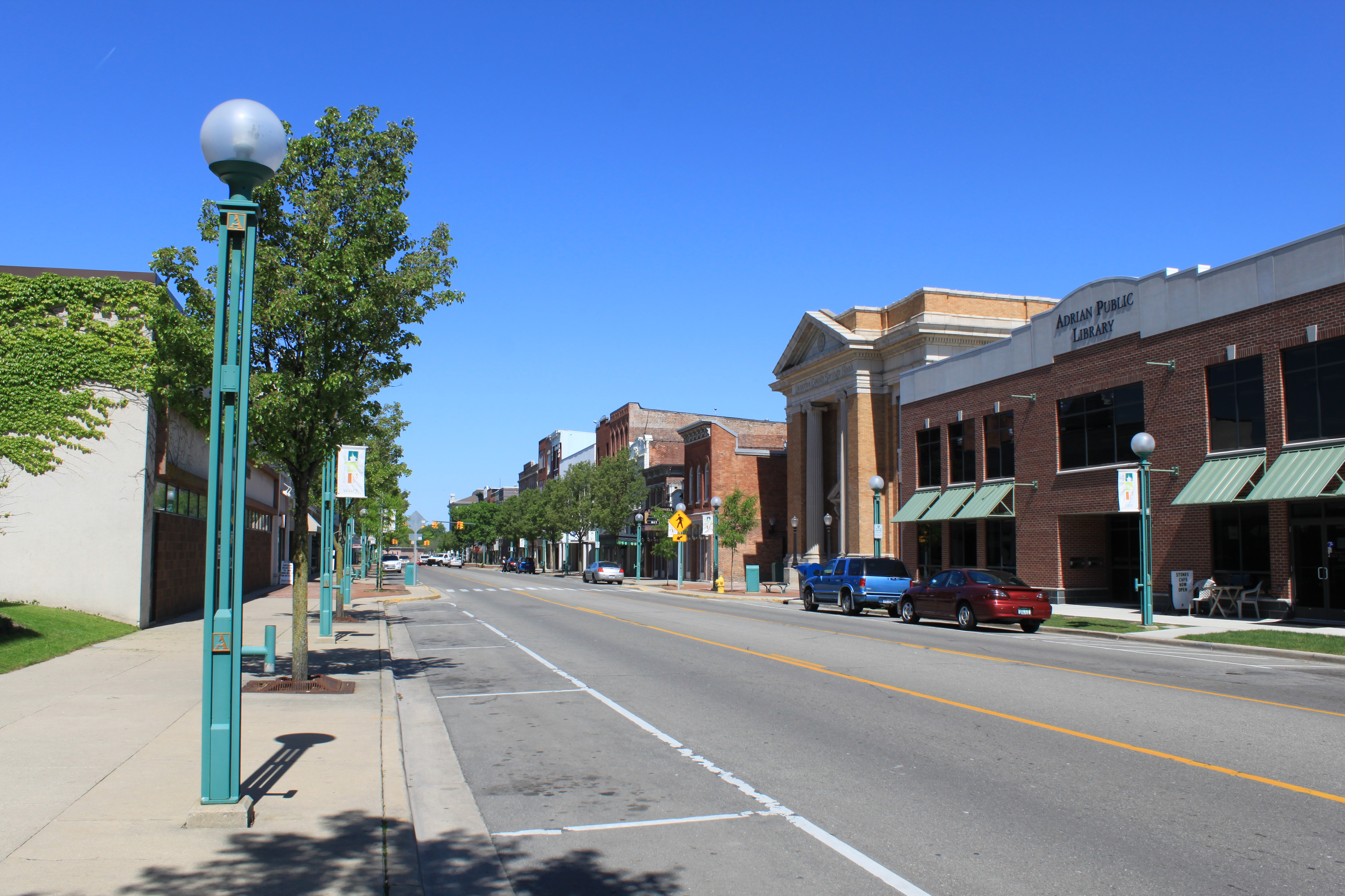 Downtown Adrian Michigan, Maumee Street